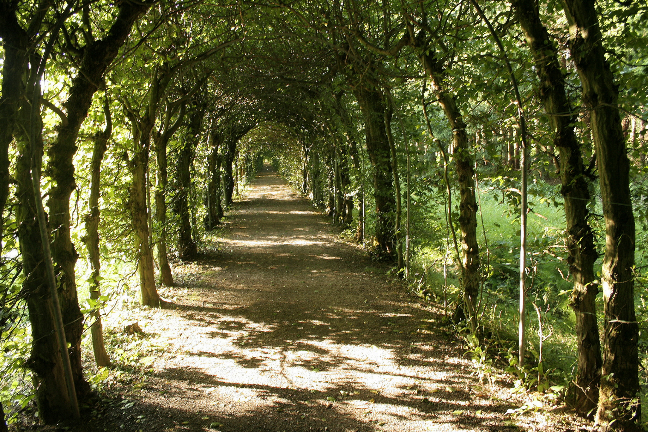 European Hornbeam (Carpinus betulus).